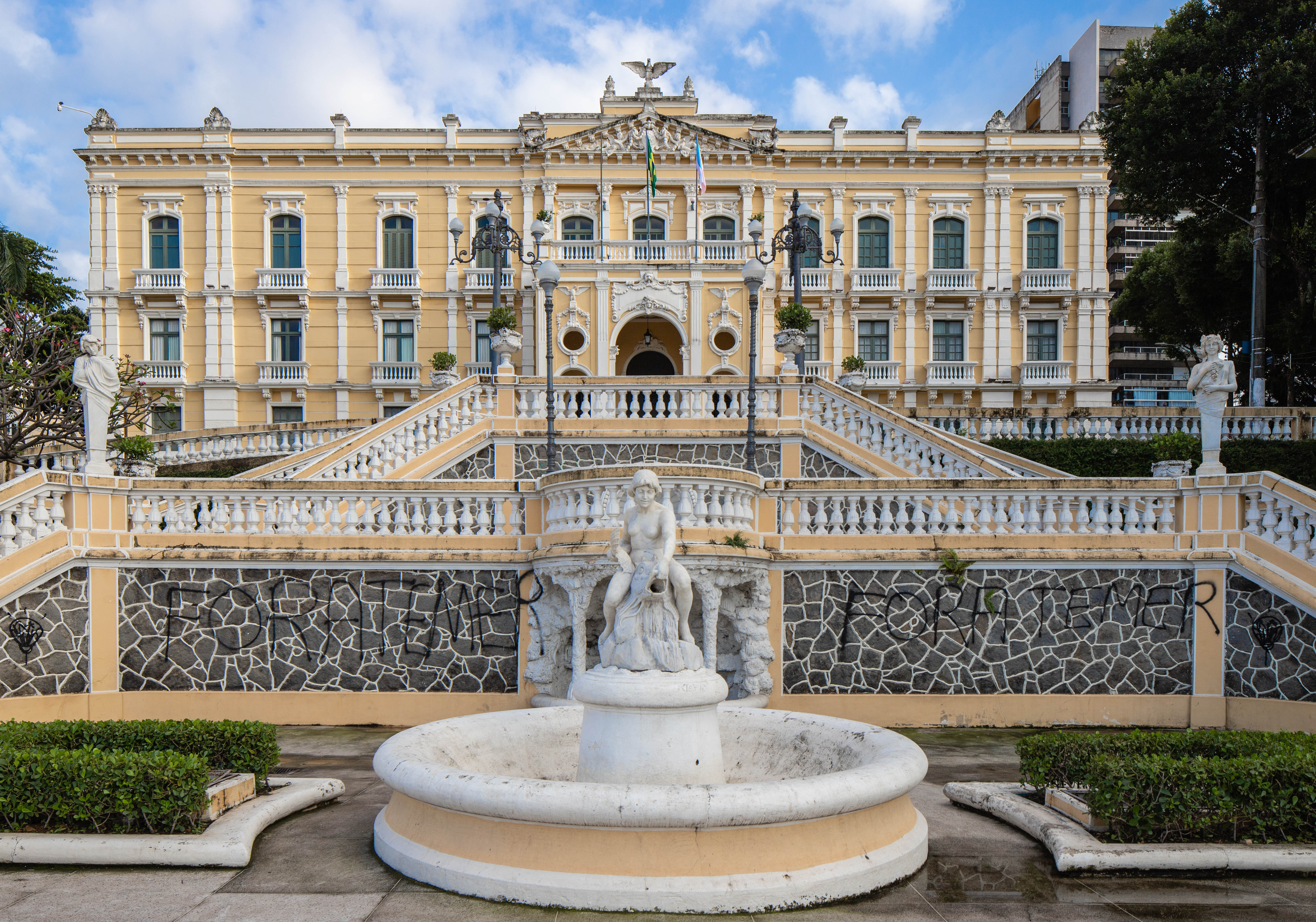 Palácio Anchieta, Vitória, Espírito Santo, Brazil.